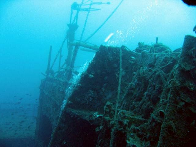 Amoco Milford Haven, Arenzano, Italy